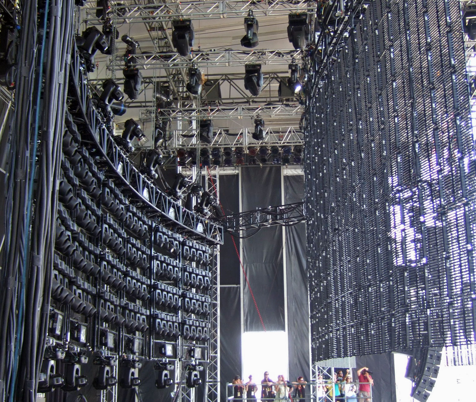 Stage setup. According to a later Wired article, this is the lighting rig for the Nine Inch Nails show -- the thing in front is a stealth screen that they raise and lower when needed.